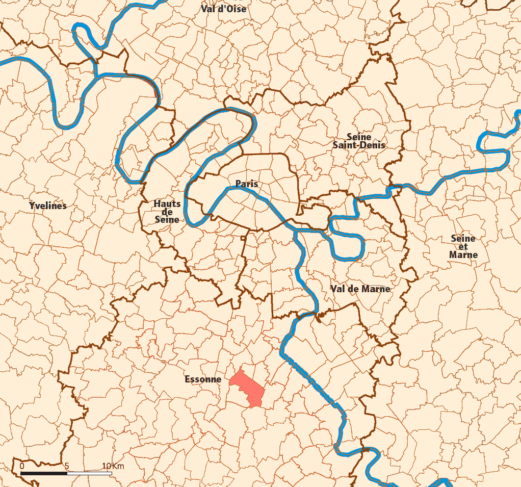 Created map myself